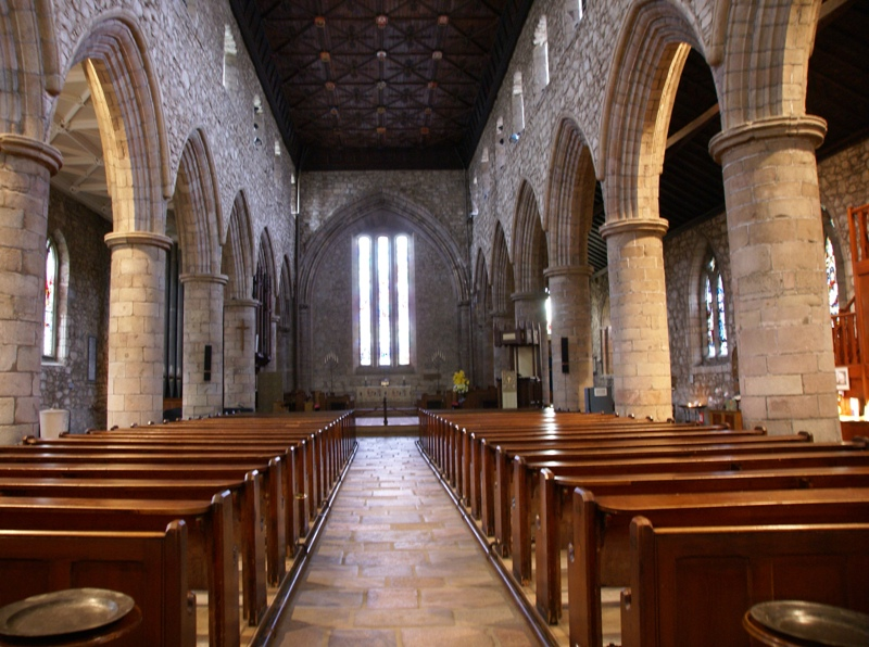 St Machar's Cathedral, Aberdeen, Scotland - interior